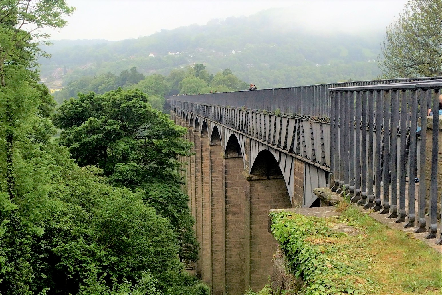 Pontcysyllte Aqueduct carrying Llangollen Canal over River Dee